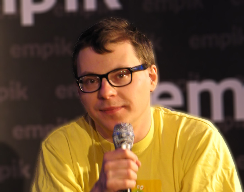 Piotr Paziński - a Polish journalist and essayist